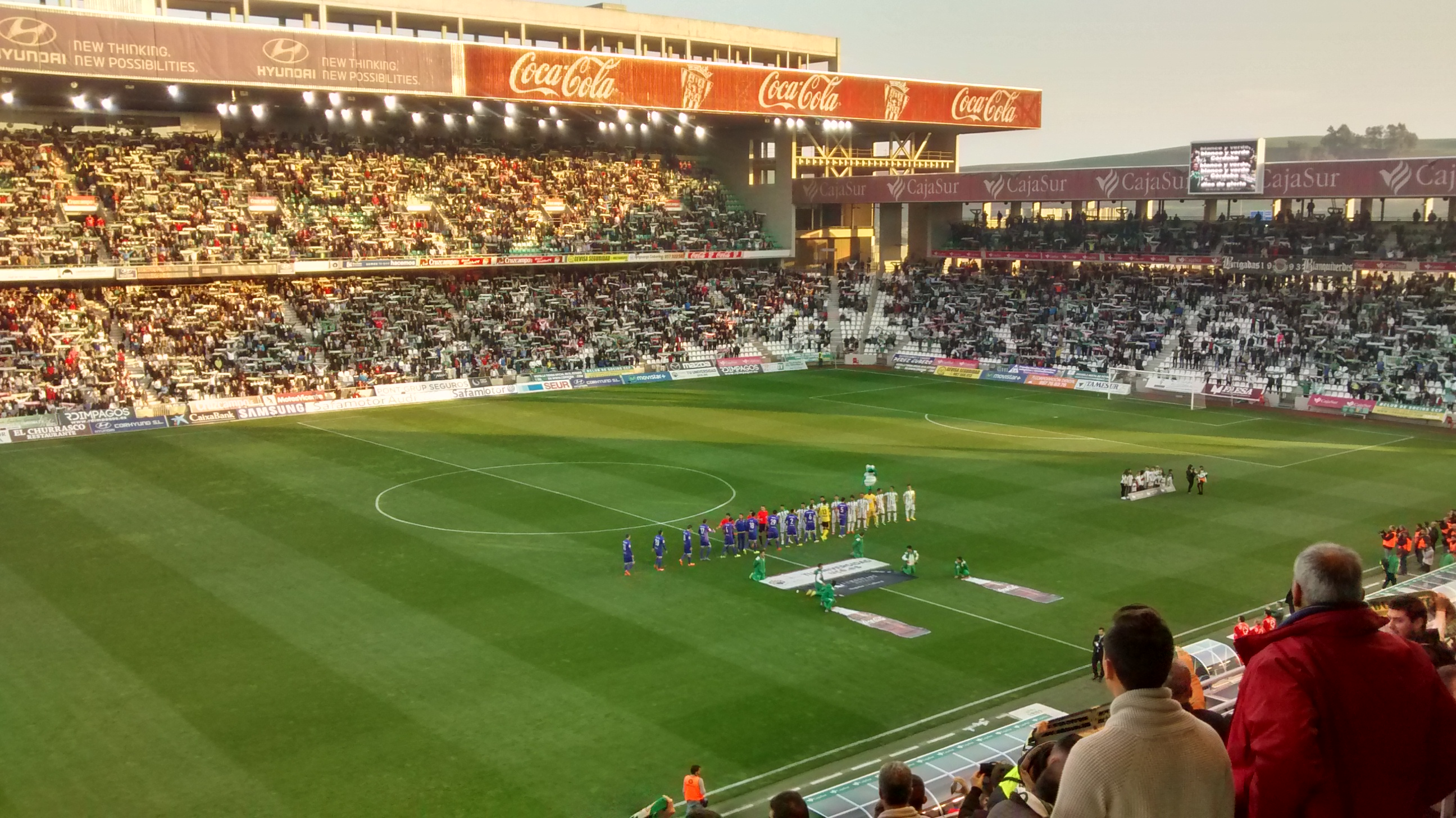 Nuevo Arcángel stadium. Match Córdoba CF 2:3 CD Leganés